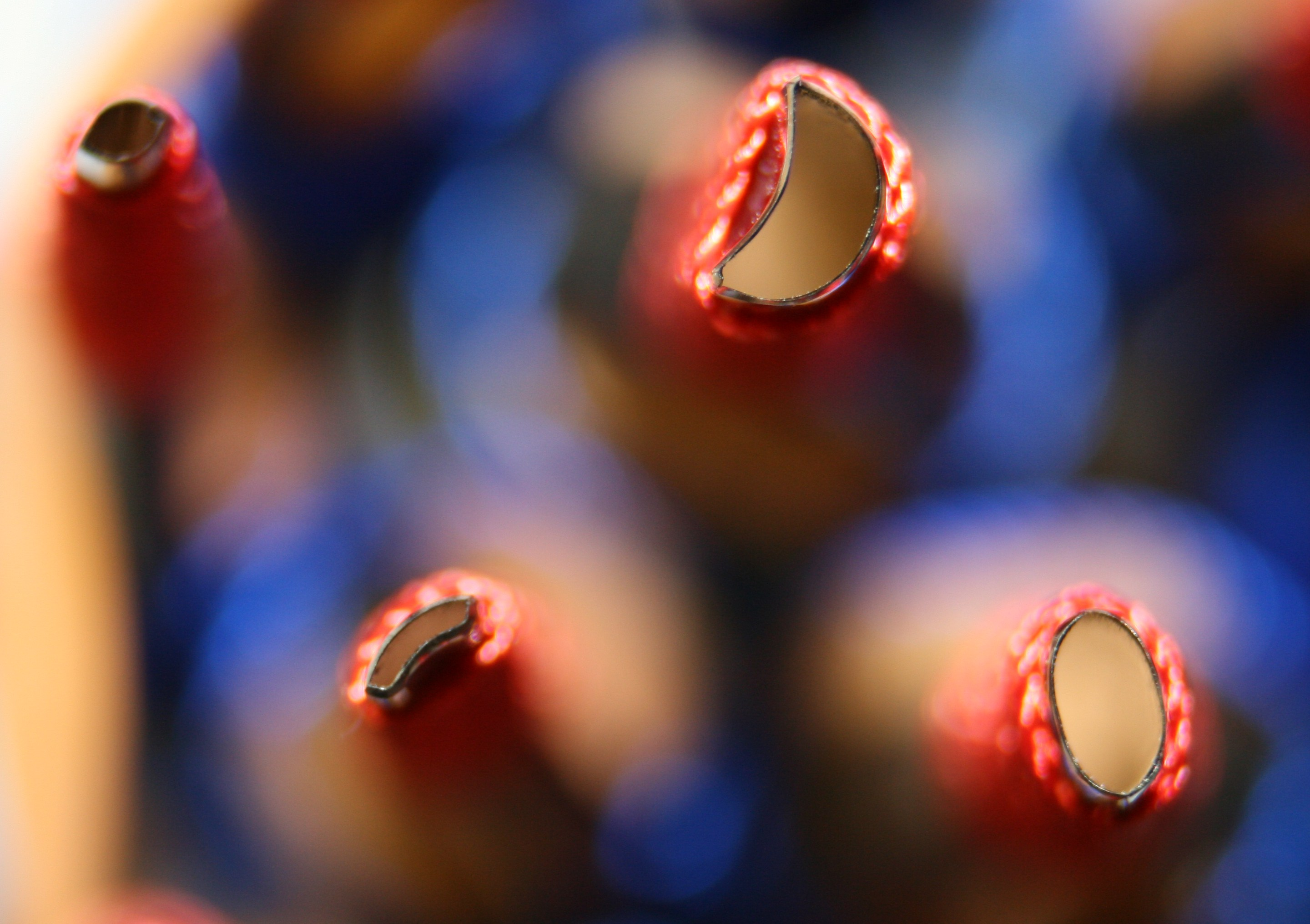 Dougubori